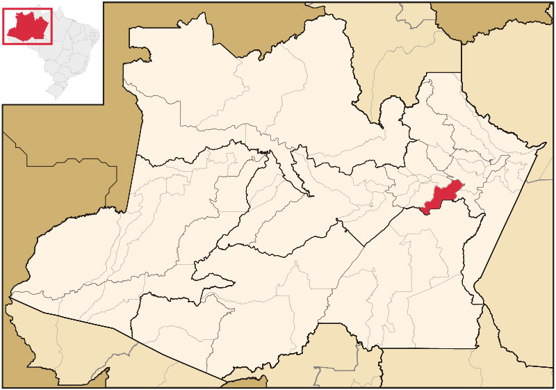 Map of Amazonas highlighting Autazes.